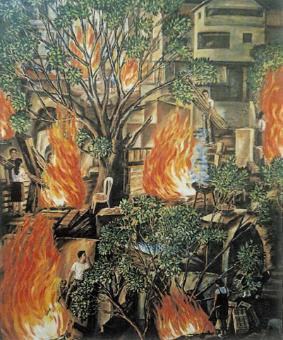 Since 1999, the original painting “Holiday Lag BaOmer” is in private collection in Israel. Oil on canvas. 0.80x1.0m.